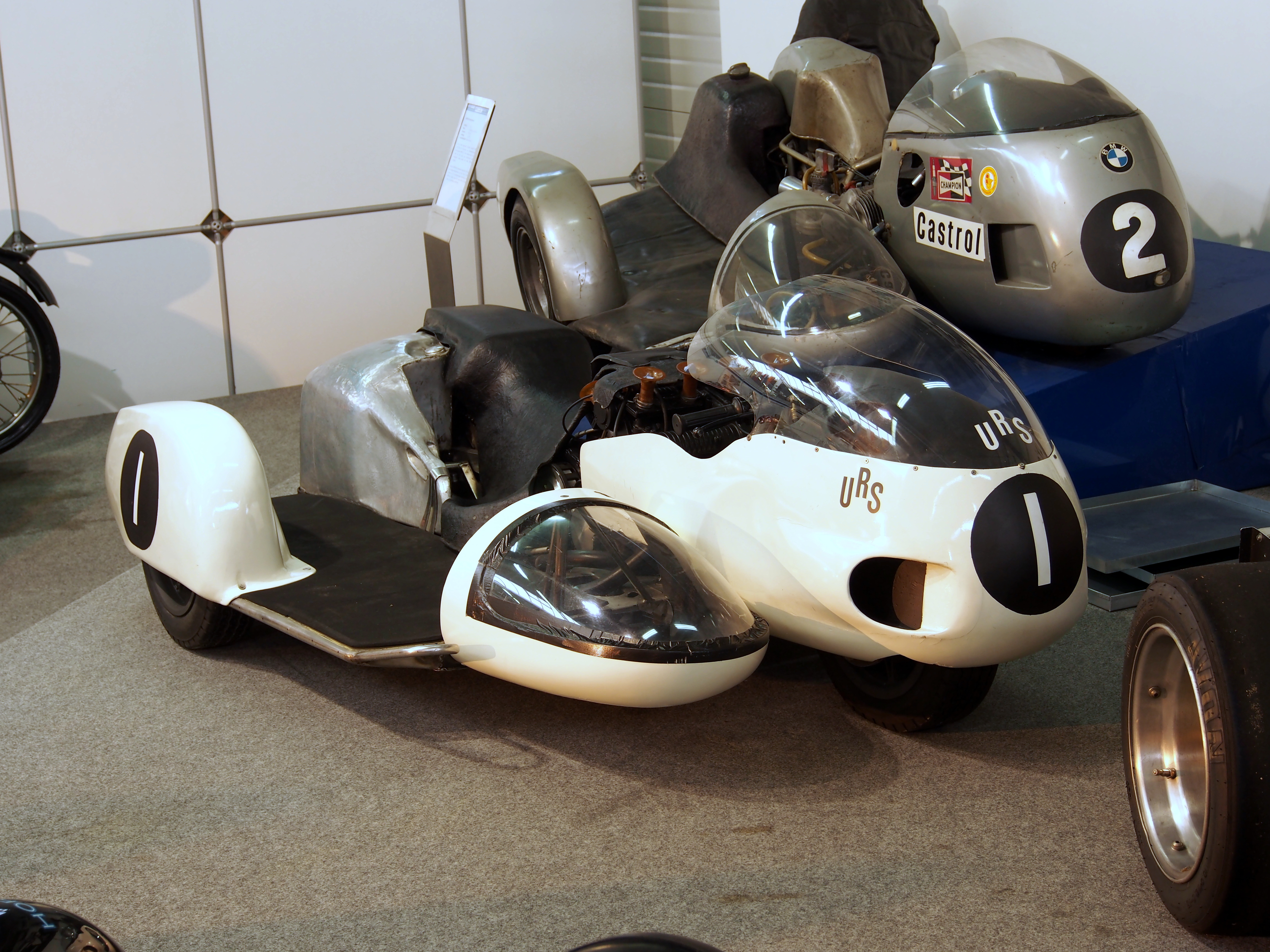 Photographed at the Motor-Sport-Museum am Hockenheimring, Germany.